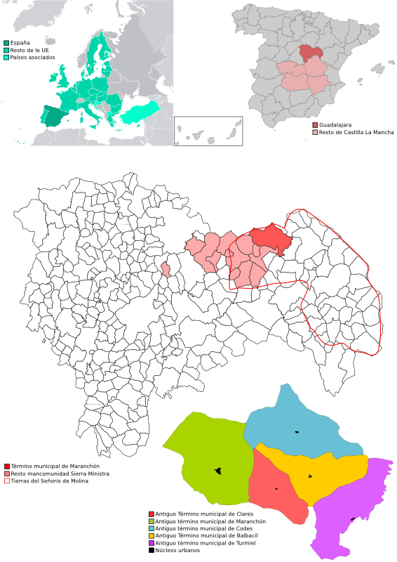 Maps from municipality of Maranchón, Guadalajara, Spain, Europe.